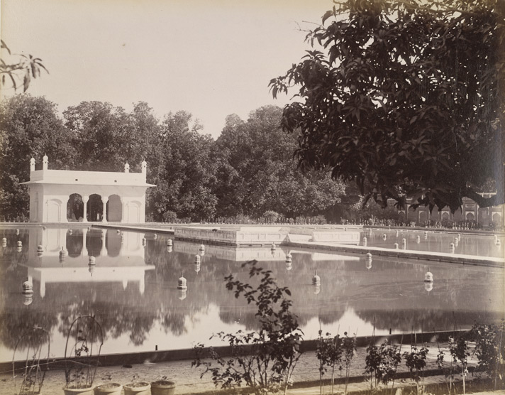 Mughal era Shalimar Gardens — in Lahore, Bengali. Within colonial British India, 1895.